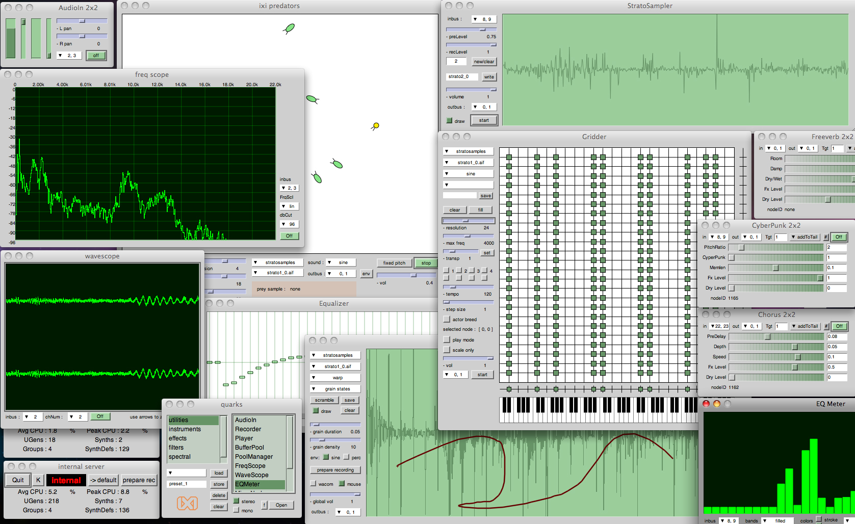 An example of the use of the GUI capabilities afforded by the SuperCollider GUI classes. This is a screenshot of the ixiQuarks, a 3rd party library to be found as Quarks library.